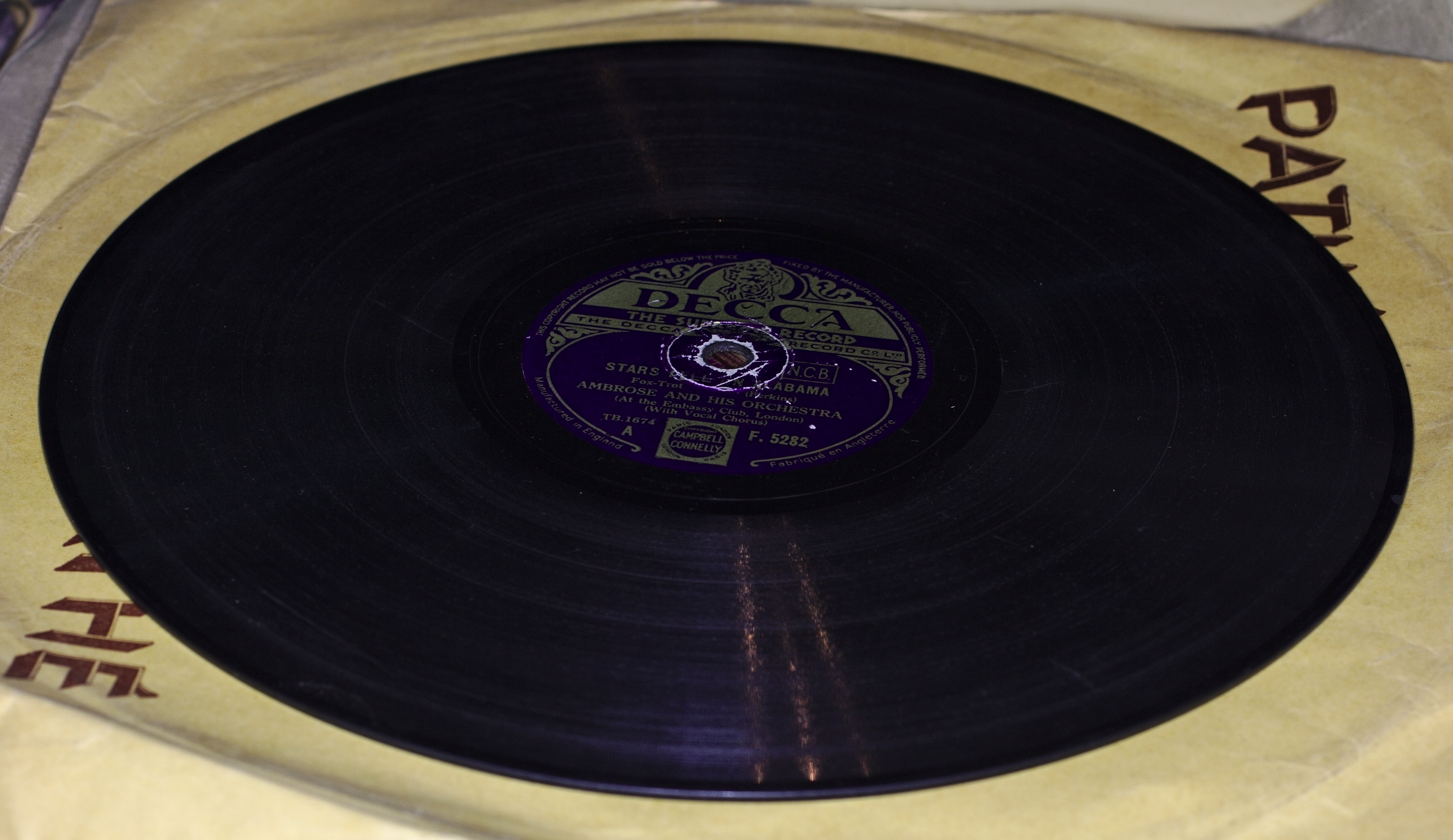 A gramophone record of Ambrose in 1934 at the Embassy Club. "Stars fell on Alabama" sung by Sam Browne.